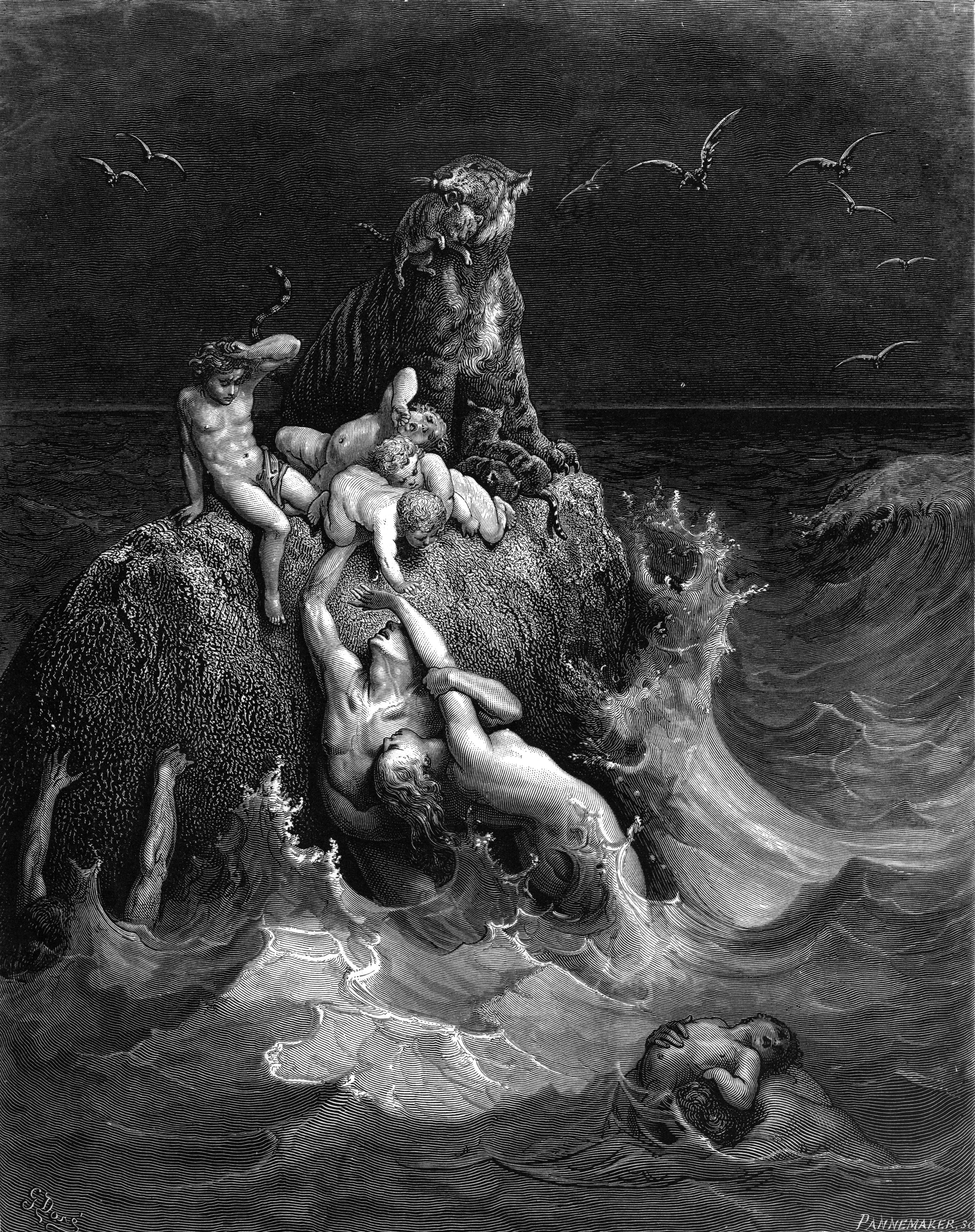 Illustration for the Holy Bible.